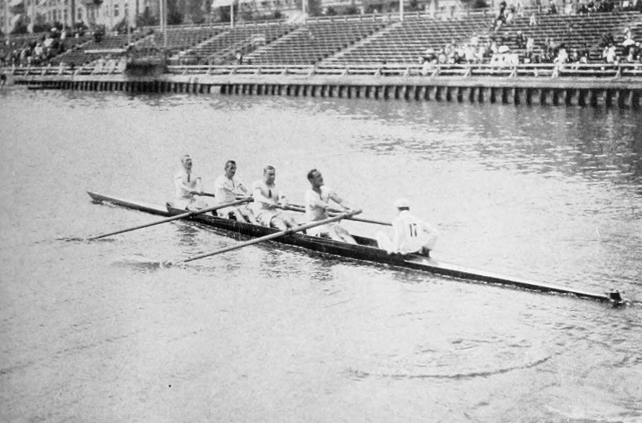 The British coxed fours Thames R.C. at the 1912 Summer Olympics